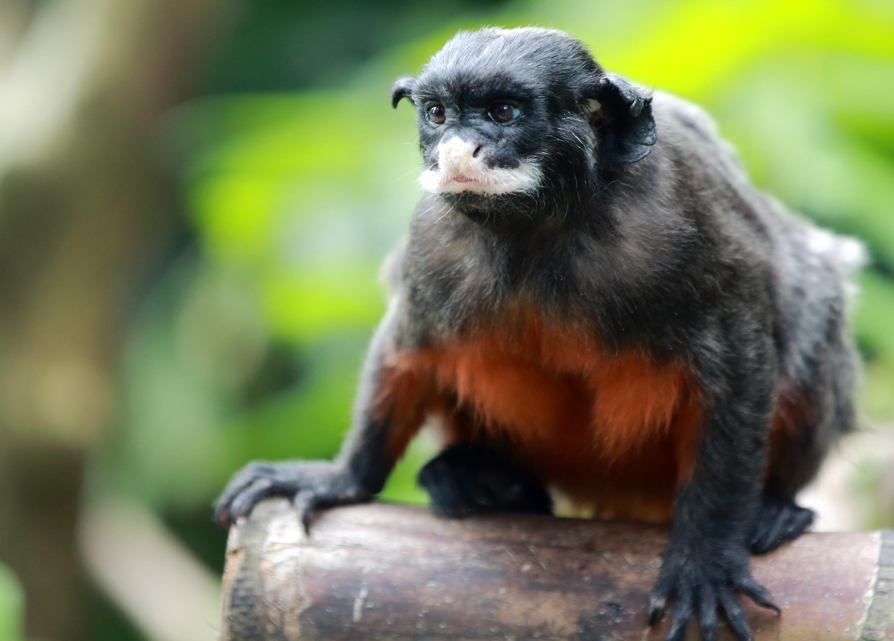 Red-bellied tamarin (Saguinus labiatus) in Singapore Zoo.